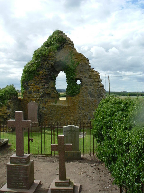 St Mary's Chapel ruins Old Rattray